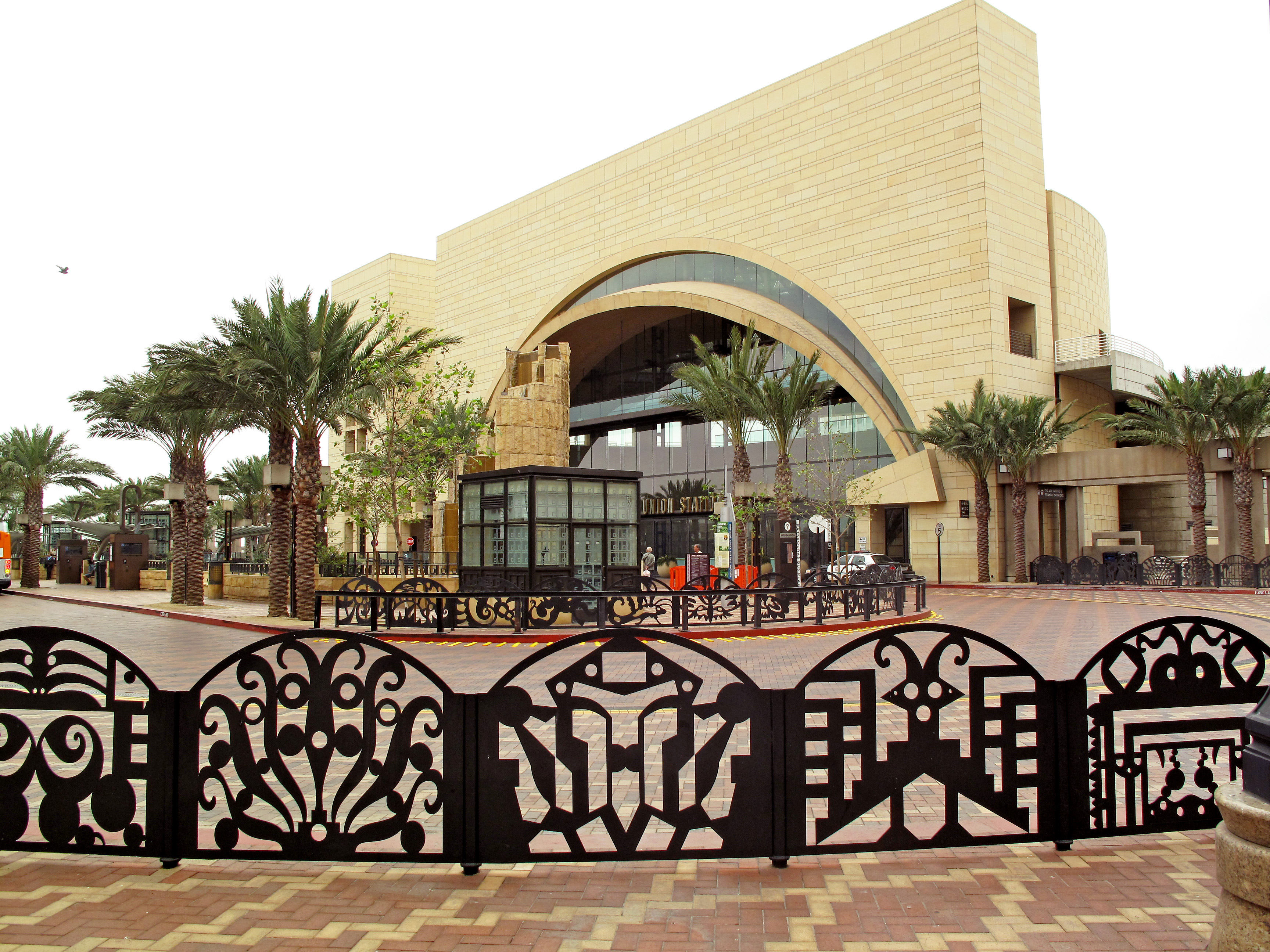 East Portal entrance to Union Station, Los Angeles. View across Patsaouras Transit Plaza.